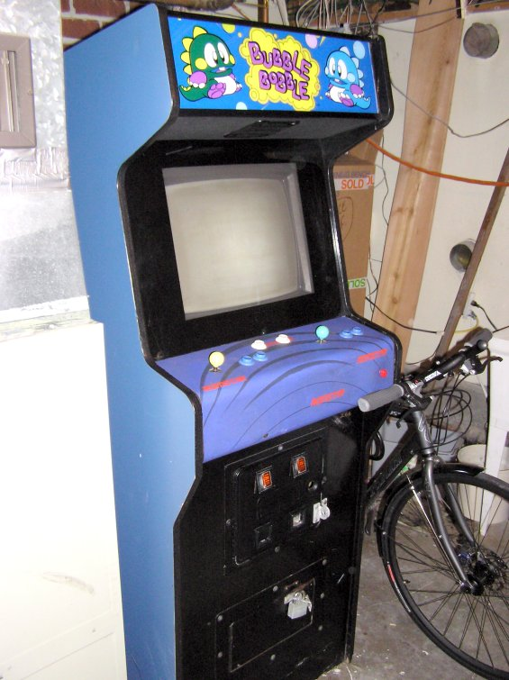 Arcade machine dedicated to the 1984 video game Bubble Bobble.